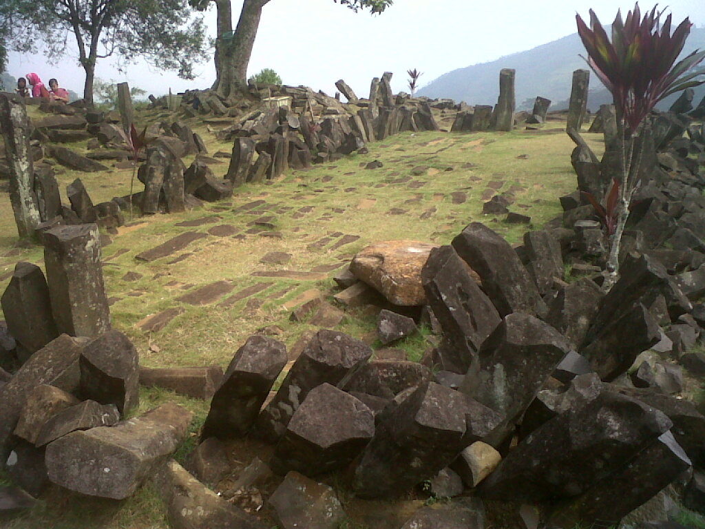 Taken from Gunung Padang Megalith Site, Cianjur, West Java, Indonesia